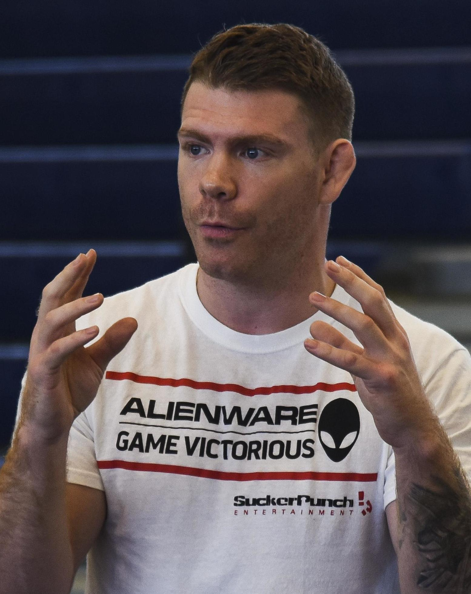 Paul Felder, Ultimate Fighting Championship lightweight division fighter, speaks to U.S. Army Soldiers about combative techniques at Joint Base Langley-Eustis, Va., Sep. 7, 2017. Felder discussed proper ways of defending and protecting one’s self with the crowd. (U.S. Air Force photo by Airman 1st Class Tristan Biese)